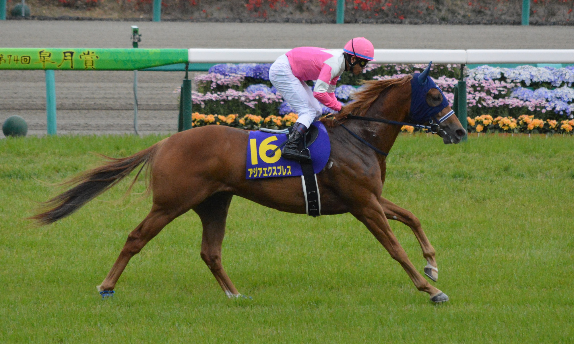 Japanese race horse Asia Express at Nakayama racecourse. Nakayama (JPN) 20 Apr 2014Satsuki Sho (Japanese 2000 Guineas) (Grade 1) (3yo Colts & Fillies) (Turf) 1m2f Firm RankHorse NameOddsAgeWgtTrainerJockey1stIsla Bonita (JPN)41/10C39-0Hironori KuritaMasayoshi Ebina2ndTo The World (JPN)5/2FC39-0Yasutoshi IkeeYuga Kawada3rdWin Full Bloom (JPN)239/10C39-0Hiroshi MiyamotoDaichi Shibata4th,5th/omission6thAsia Express (USA)13/2C39-0Takahisa TezukaKeita Tosaki